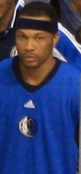 Chauncey Billups at the freethrow line, after a technical foul was called on Mavericks forward Josh Howard. Taken at Game 5 of the NBA Playoffs 2nd round on May 13, 2009, with the Dallas Mavericks visiting the Denver Nuggets at the Pepsi Center.